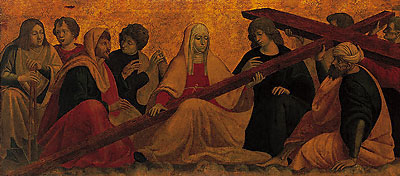 The Finding of the True Cross